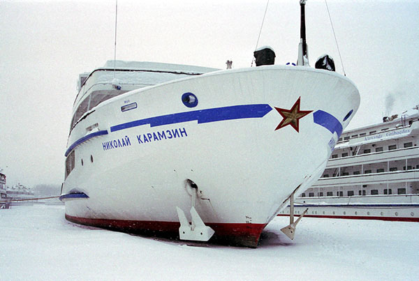 Nikolay Karamzin Projekt 301 in winter 2001 Khlebnikovskiy MSZ